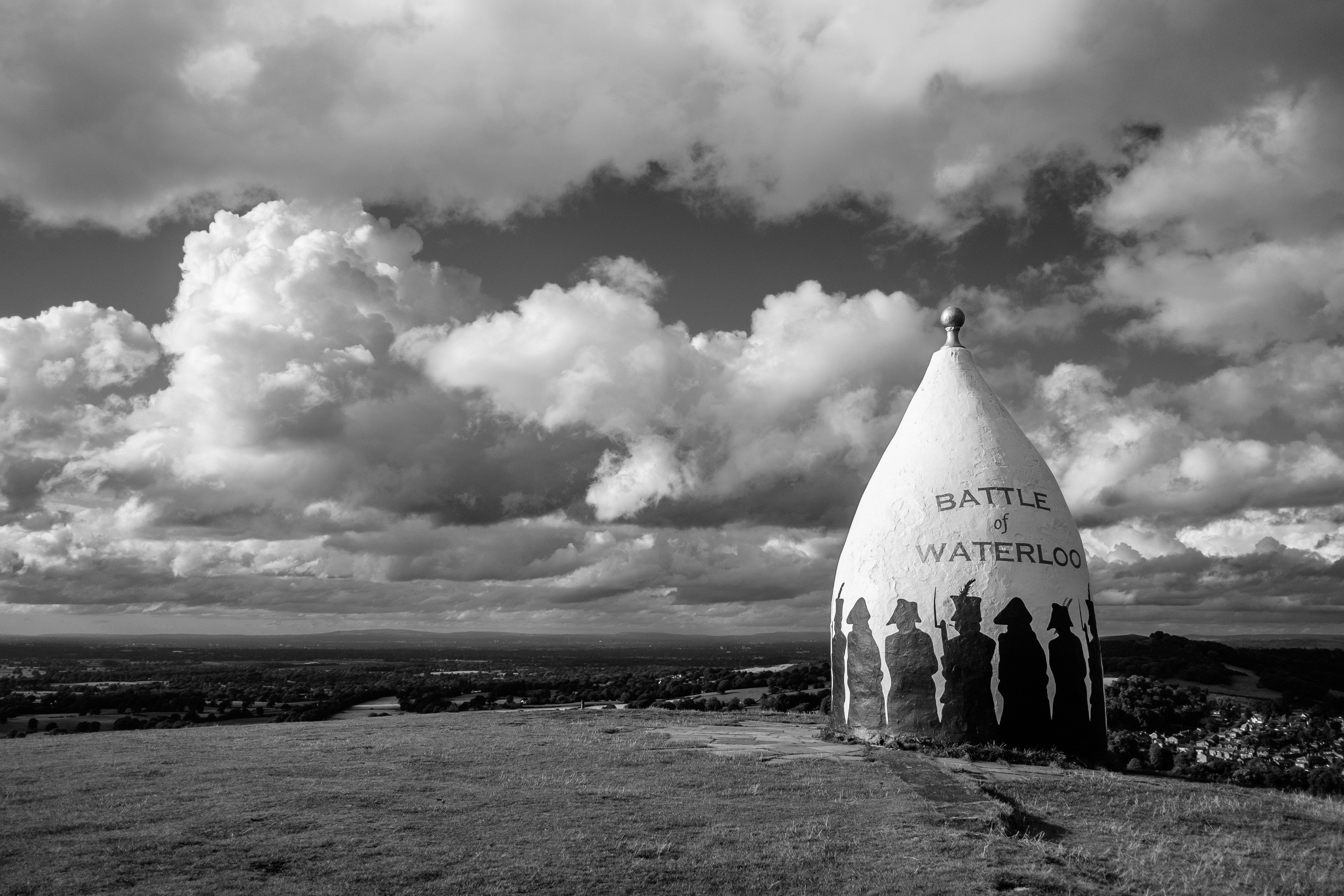 White Nancy Wikidata has entry Q7995100 with data related to this item.